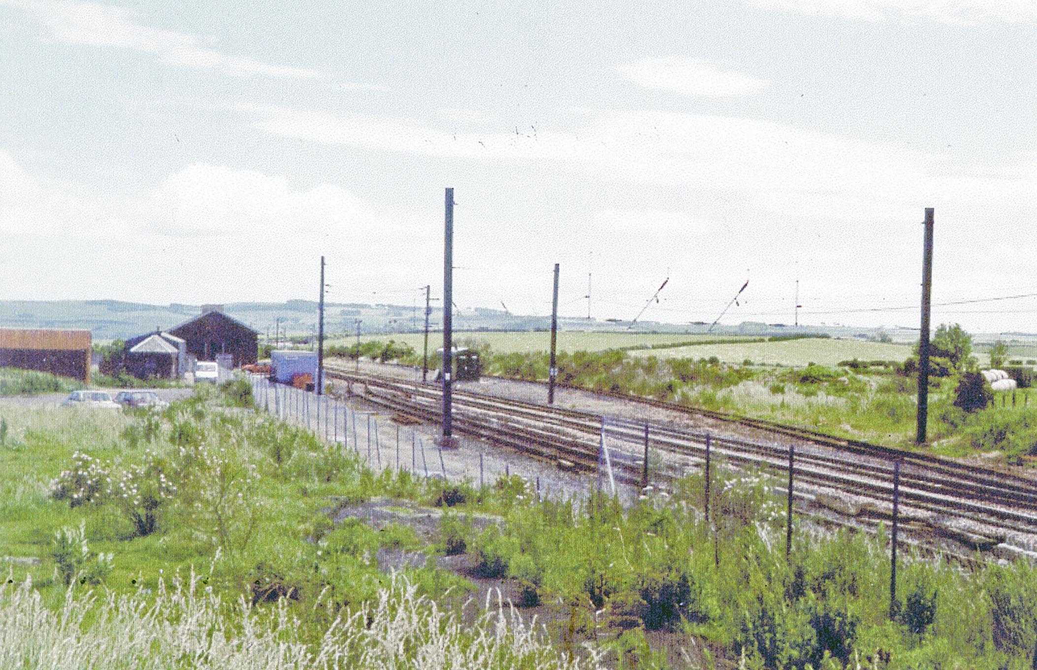 Site of former Reston station, East Coast Main Line 1997. View SE from main road bridge, towards Berwick-on-Tweed: ex-NBR Berwick - Edinburgh section of the ECML. There seems to be no trace of the station, which was c. 200 yards away and was closed 4/5/64 (goods 7/11/66), nor of the branch from Duns, Greenlaw and St Boswells which had curved in from Duns on the right until 7/11/66 - having succumbed west of Duns to the Borders Floods on 13/8/48. There seems to have been considerable change here, with new housing, since 1997